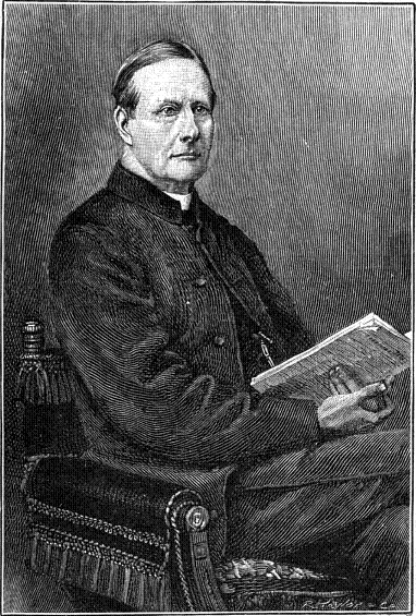 Portrait of Sabine Baring-Gould (1834-1924)